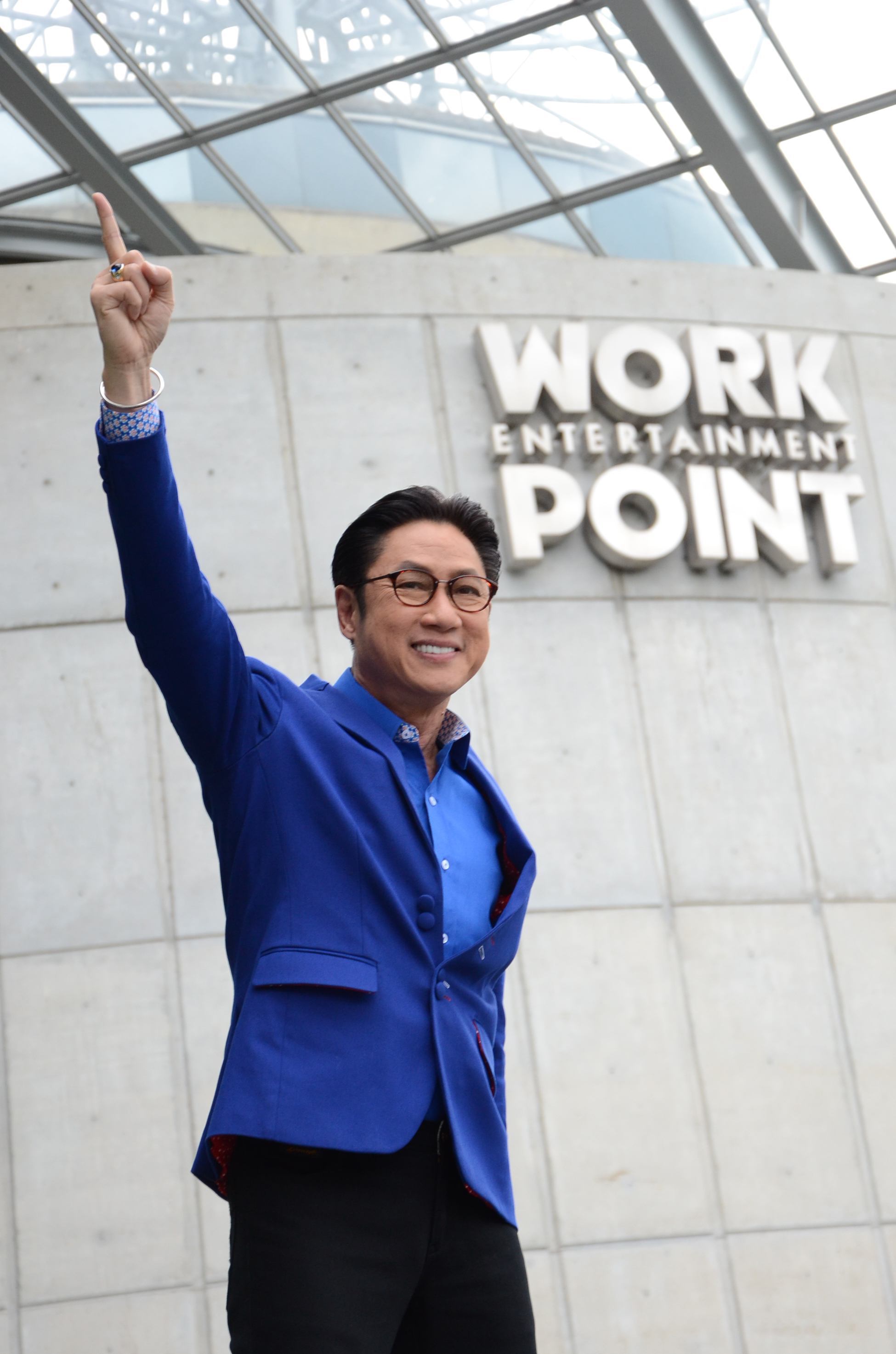 Phanya Nirunkul